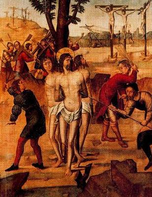 The Martyrdom of San Acacio (Acacius, Agathus, Agathius). From Tryptich. Museo del Prado. Madrid. España.